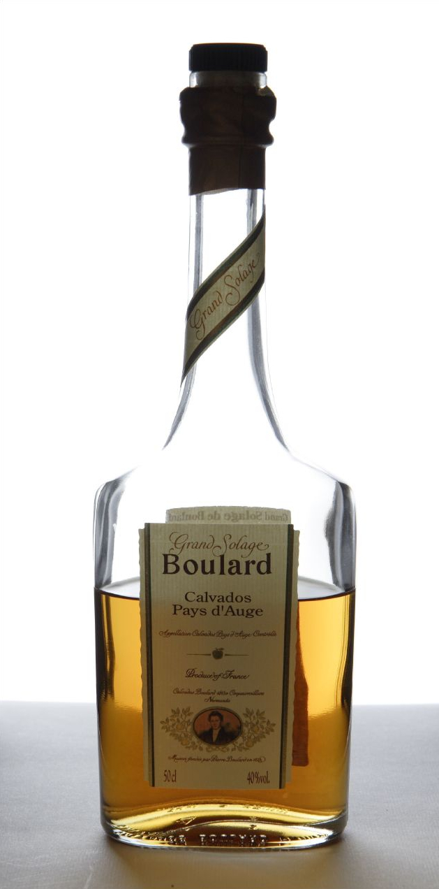 A bottle of calvados brandy. Still learning to light in my "home studio". This time shot the same bottles on white. This was much more difficult, and I'm not satisfied how gray the white ground appears. And the border between the ground and the background is clearly too visible. Need to work this out still. (Only cropped, no other editing.)